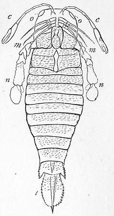 Fig. 65.—Pterygotus anglicus, viewed from the under side, reduced in size, and restored. c c, The feelers (antennæ), terminating in nipping-claws; o o, Eyes; m m, Three pairs of jointed limbs, with pointed extremities; n n, Swimming-paddles, the bases of which are spiny and act as jaws. Upper Silurian, Lanarkshire. (After Henry Woodward.)